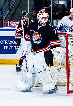 Amur Khabarovsk goalie Juha Metsola during KHL game on February 2, 2016.